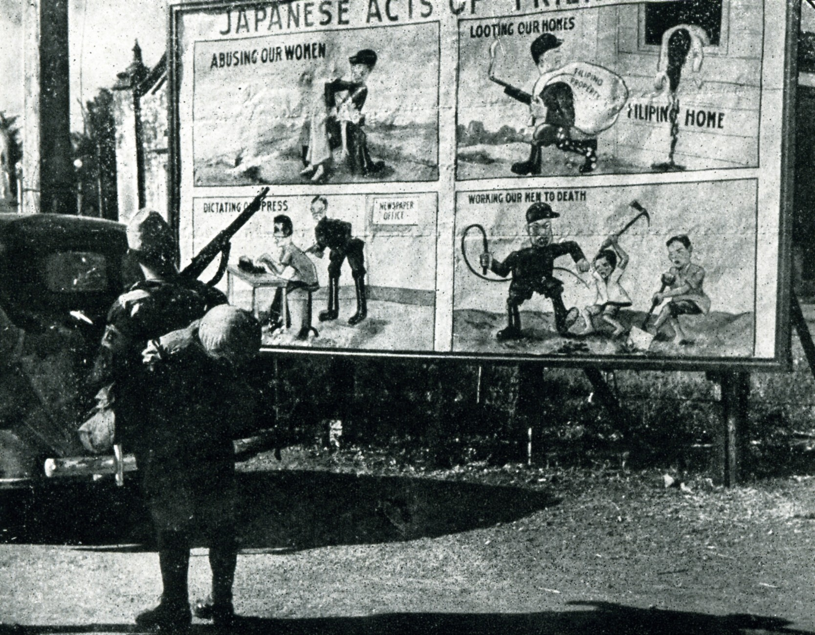 A Japanese soldier stand in front of US propaganda, in the Philippines.